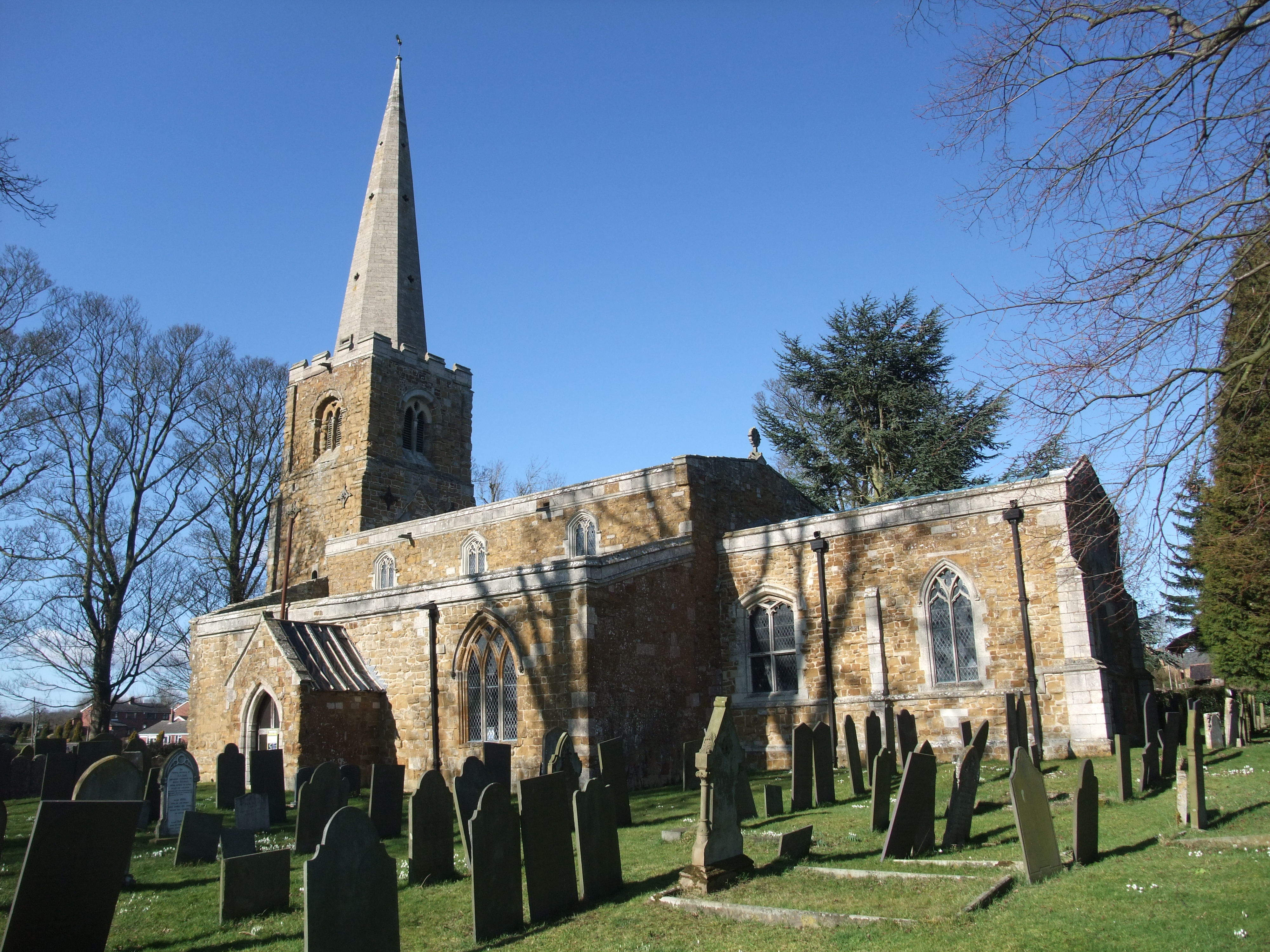 Parish church of St James the Great, Ab Kettleby, Leicestershire, seen from the southeast